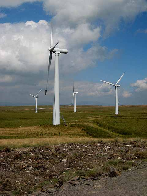 Carno Wind Farm at Twr Gwyn Carno Wind Farm, opened 1996, was at the time of its completion the largest wind farm in Europe with 56 turbines installed with a total capacity of over 33 Megawatts. The towers, each over 30 metres high dominate the landscape for miles around. Opinions about wind farms are varied, with strongly opposed views about their value and desirability. On the two occasions when I visited the site, not one of the 56 turbines was turning, despite a moderate breeze. There may have been good technical reasons for this, but it does not make for good publicity for wind power.